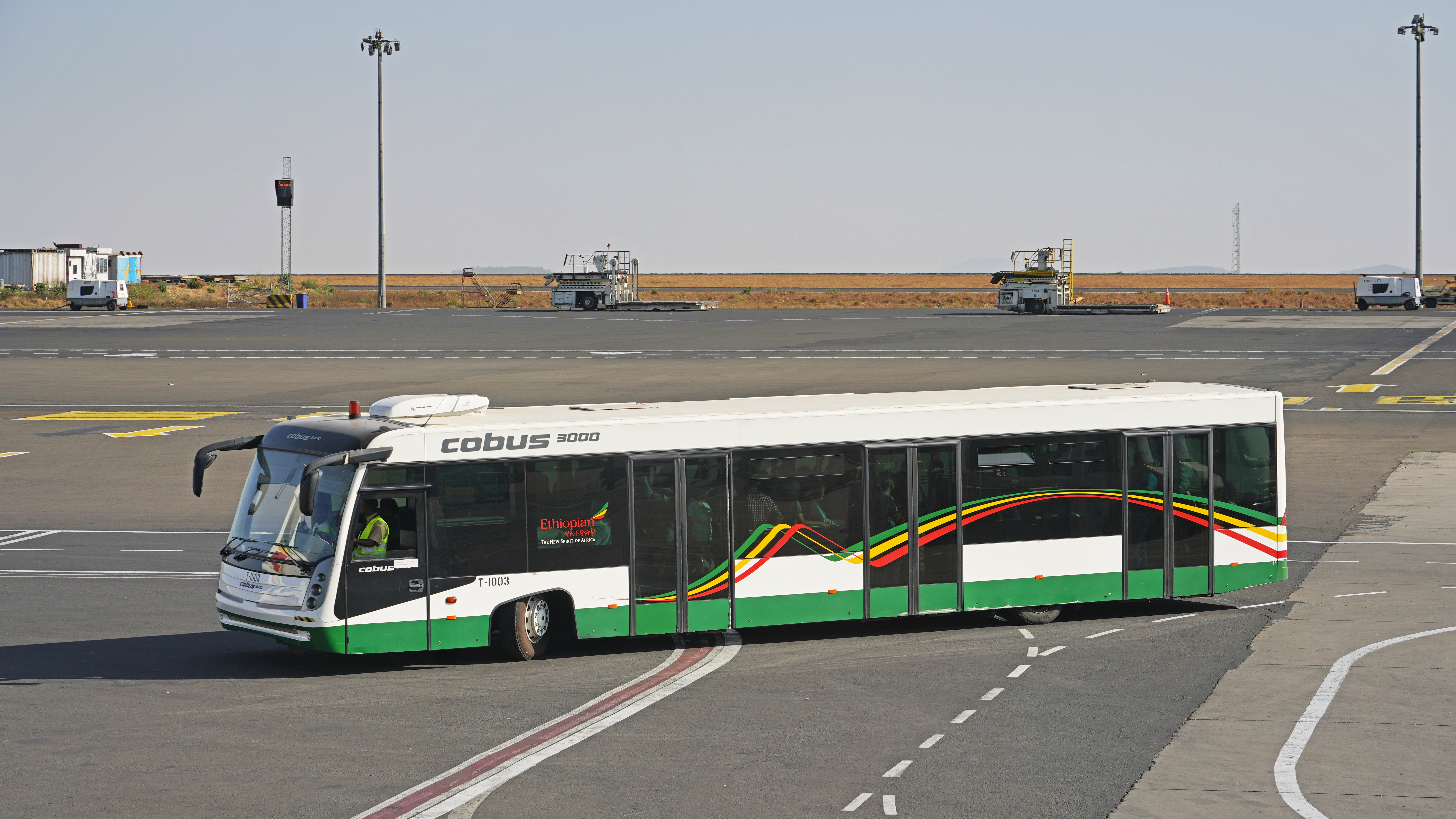 Airport bus at Bole Int. Airport in Addis Ababa, Ethiopia